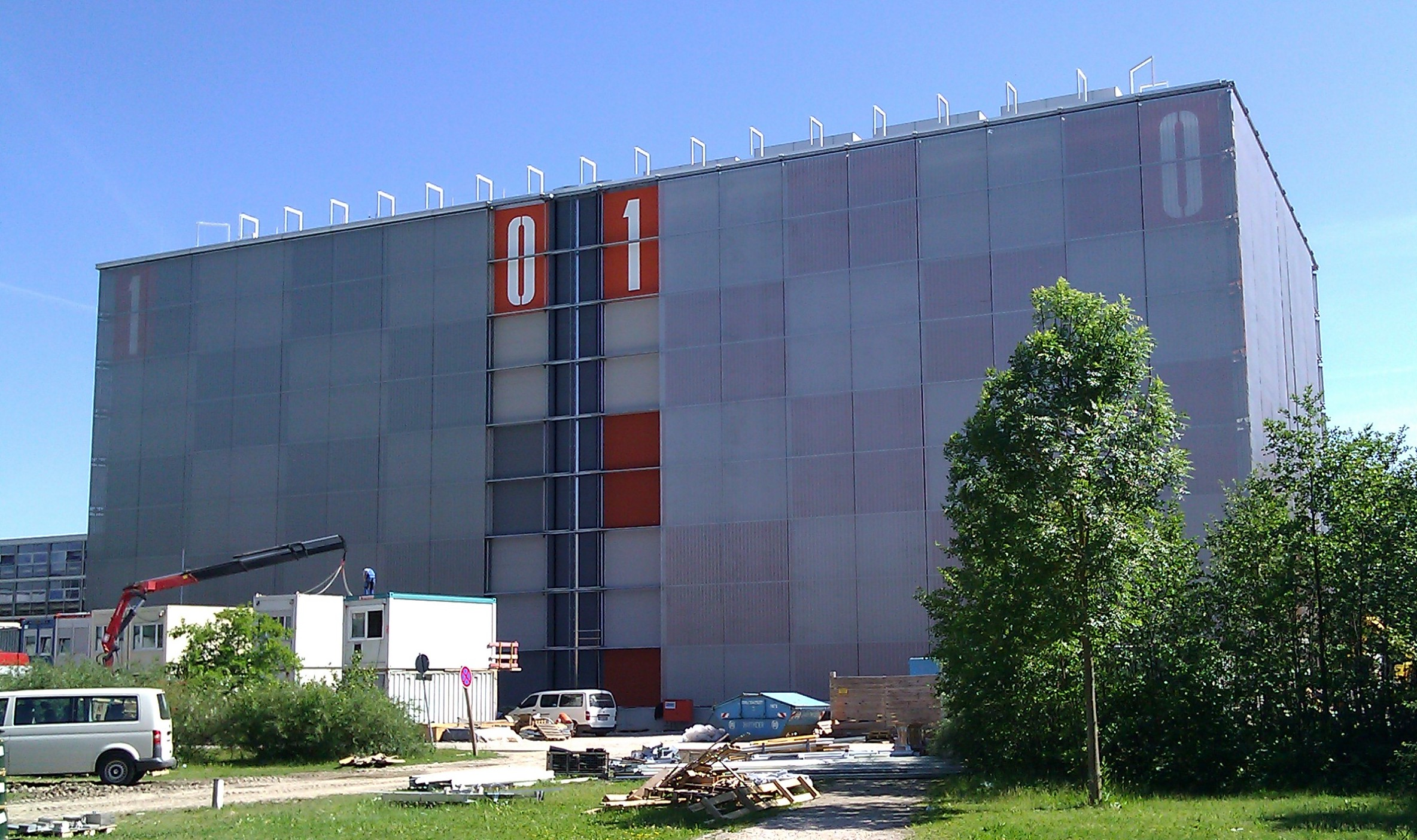 A Leibniz-Rechenzentrum (LRZ) building with two supercomputers: Höchstleistungsrechner Bayern II on the left side and SuperMUC, its successor, on the right side.